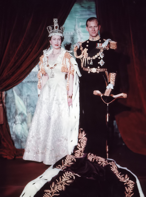 Queen Elizabeth II and Prince Philip, Duke of Edinburgh. Coronation portrait, June 1953, London, England. Credit: Library and Archives Canada/K-0000047